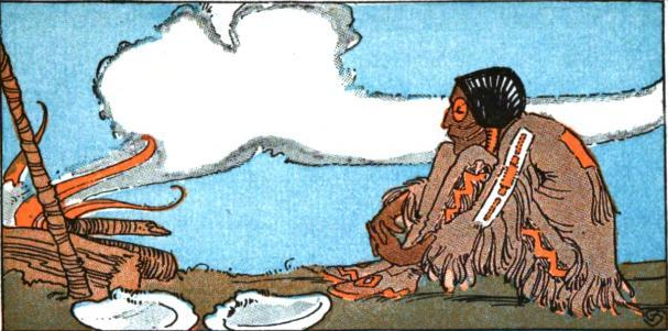 Artist Gertrude Spaller's rendition of Iktomi in the story Iktomi and the Ducks.